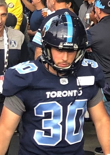 Tyler Crapigna, placekicker for the Toronto Argonauts.